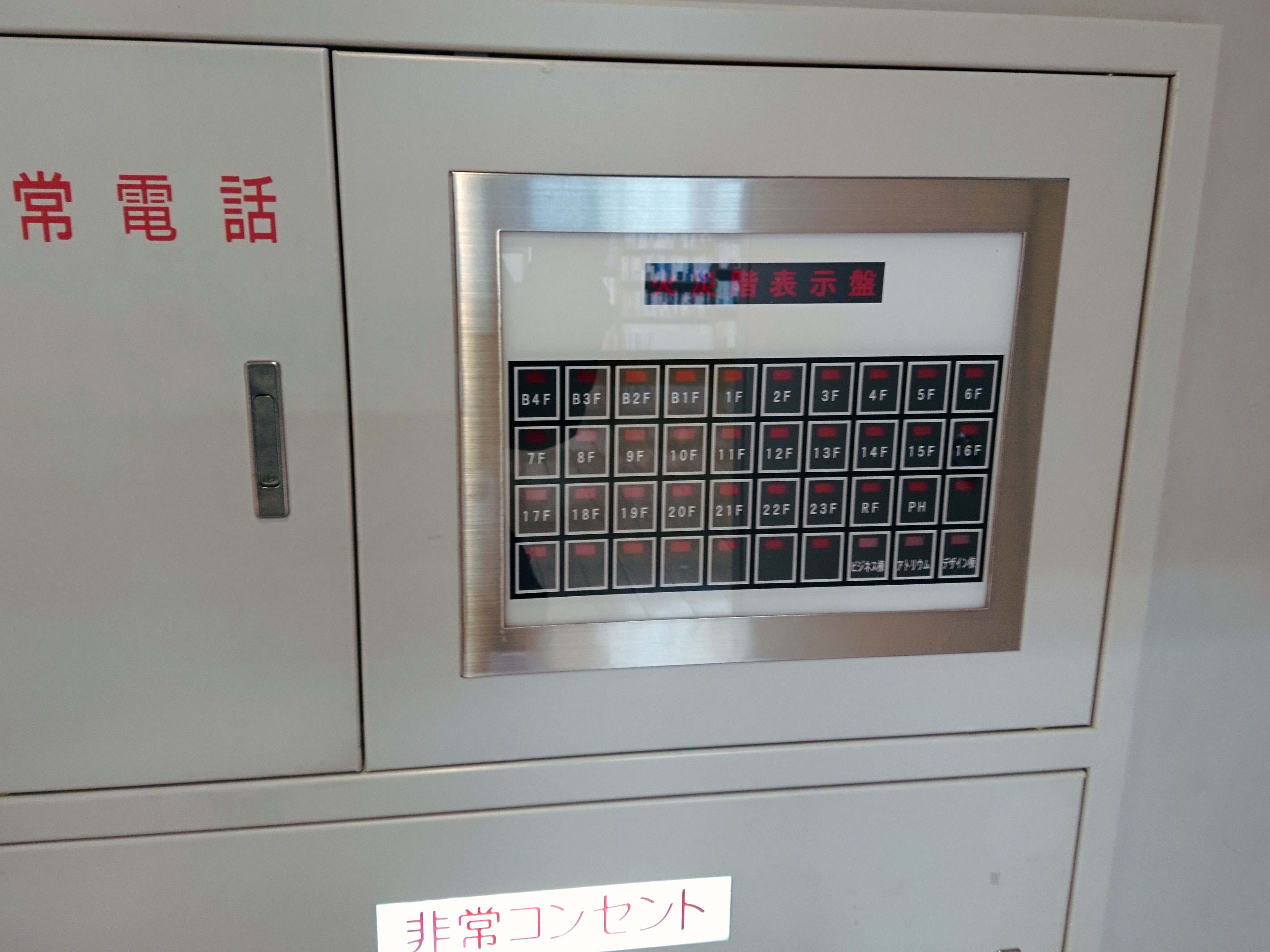 Fire floor indicator put at the firefighting lobby near the exit stairwell.